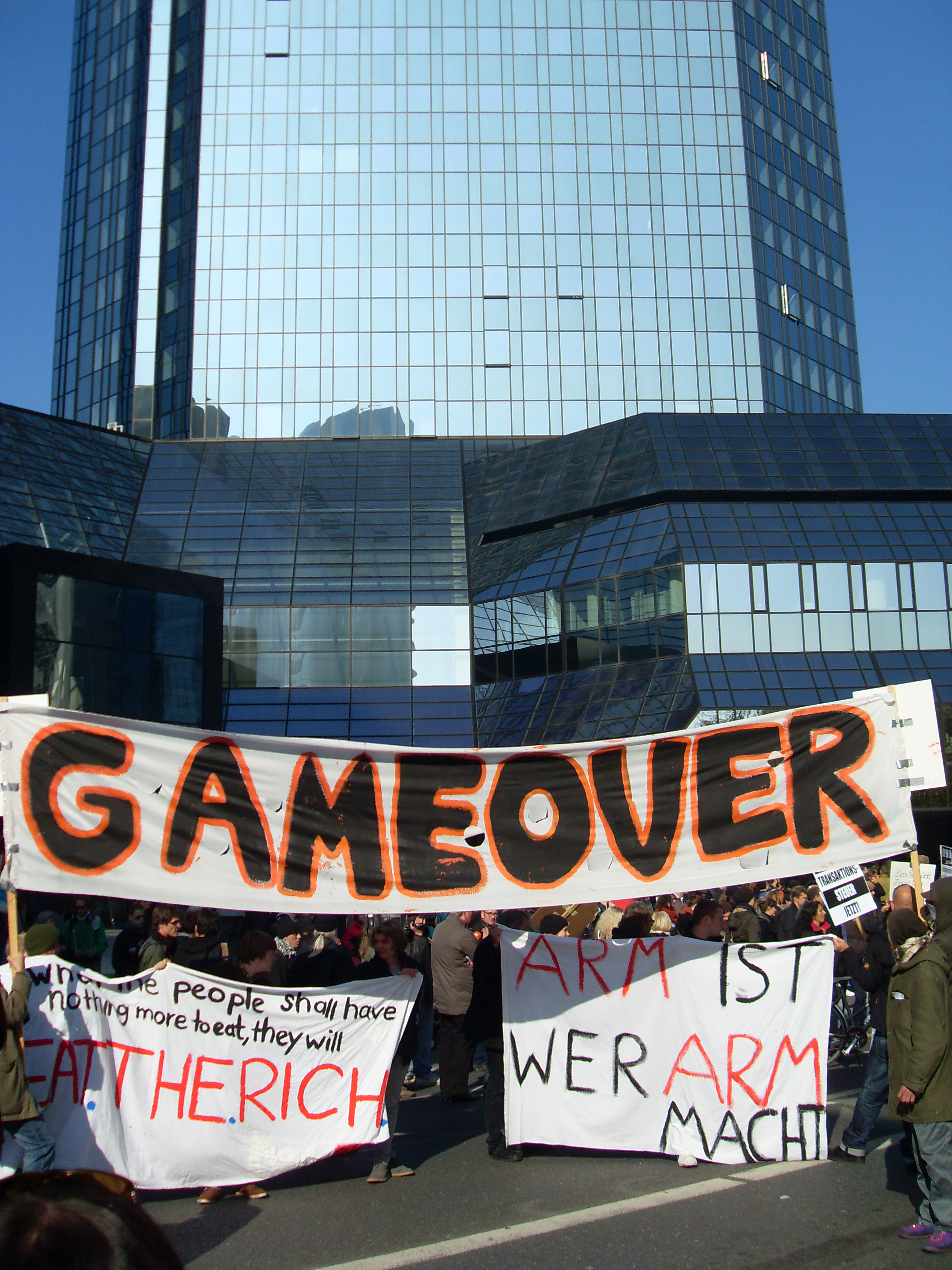 „Occupy Frankfurt“: Rally, 22nd October 2011 in front of Deutsche Bank Twin Towers